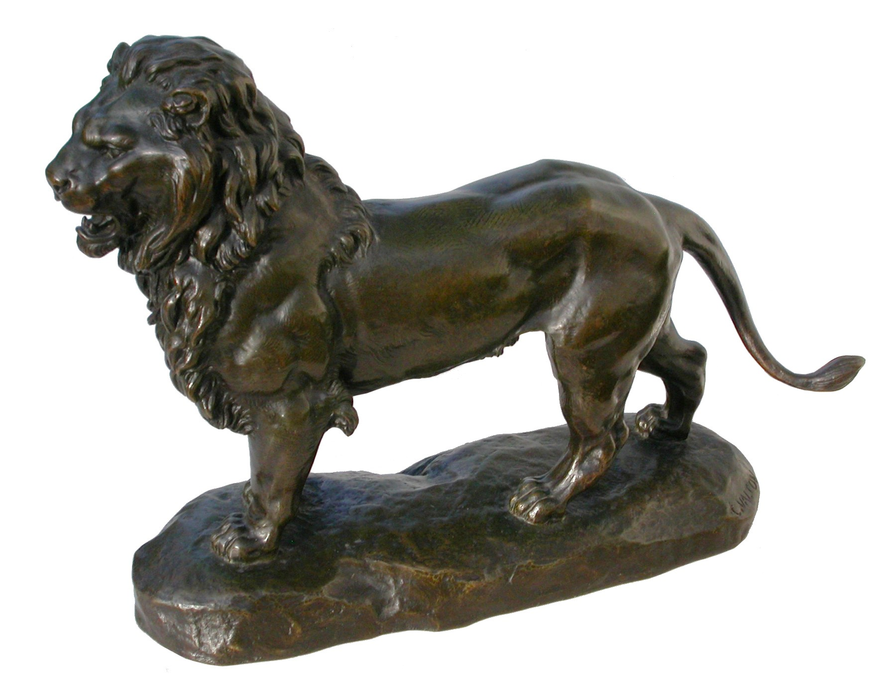 Walking lion attributed to Charles Valton (1851-1918), unknown location. Approximative measurements: H=30 cm, L=43 cm, width=12.5 cm, weight= 7.7kg.